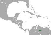 Venezuelan Lowland Rabbit (Sylvilagus varynaensis) range